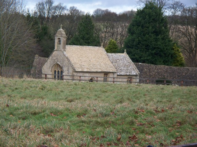 St Oswald's Church, near to Shipton, Gloucestershire, Great Britain. The church in Shipton Solers, seen across the fields from the footpath. (Note: this church is dedicated to St Mary. The church dedicated to St Oswald is in the nearby village of Shipton Oliffe.)